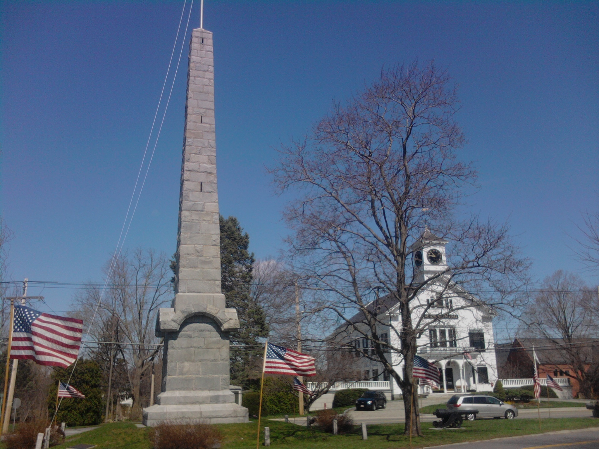 The Isaac Davis Monument on the Town Green in Acton, Massachusetts, dedicated to the Minutemen of Acton who were killed in the Battle of Concord, April 19, 1775: Capt. Isaac Davis, Pvt. James Hayward, Pvt. Abner Hosmer.